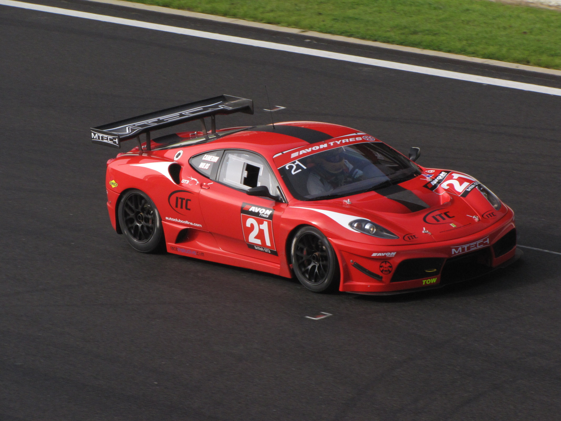 Ferrari 430 Sucderia GT3 of the british GT championship in Spa 2009.